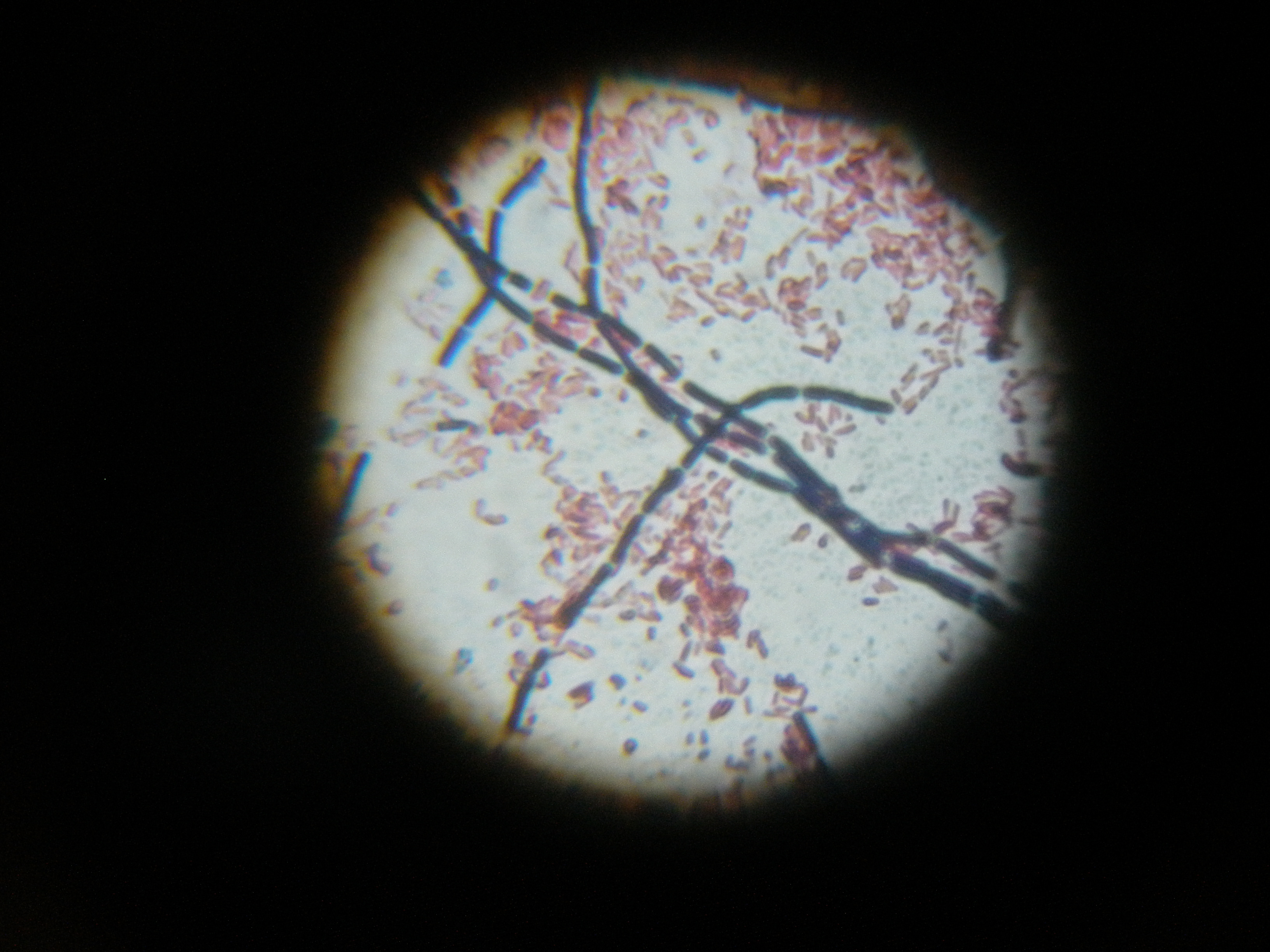 Gram-stained Bacillus cereus and Escherichia coli. The Gram-positive B. cereus are dyed violet and in a series of chains, and the E. coli are the small pink clusters in the background.